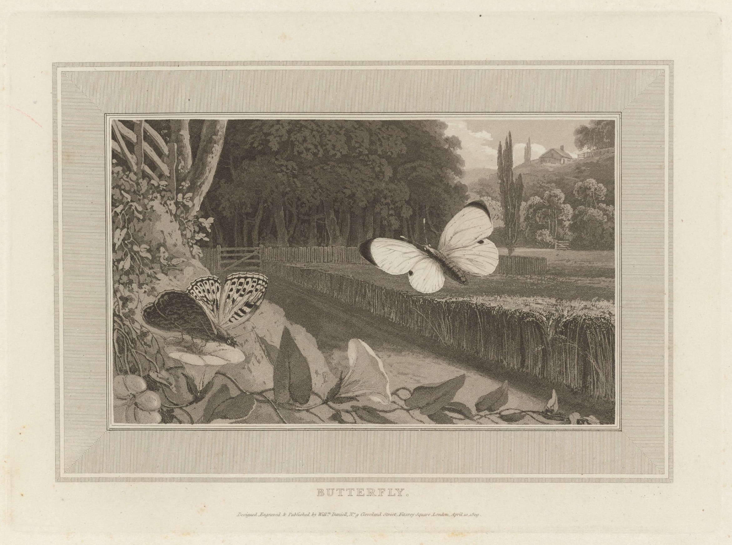 Butterfly illustration from Interesting selections from animated nature: with illustrative scenery (London: 1809) by William Daniell (1769-1837). Typ 805.09.3161, Houghton Library, Harvard University